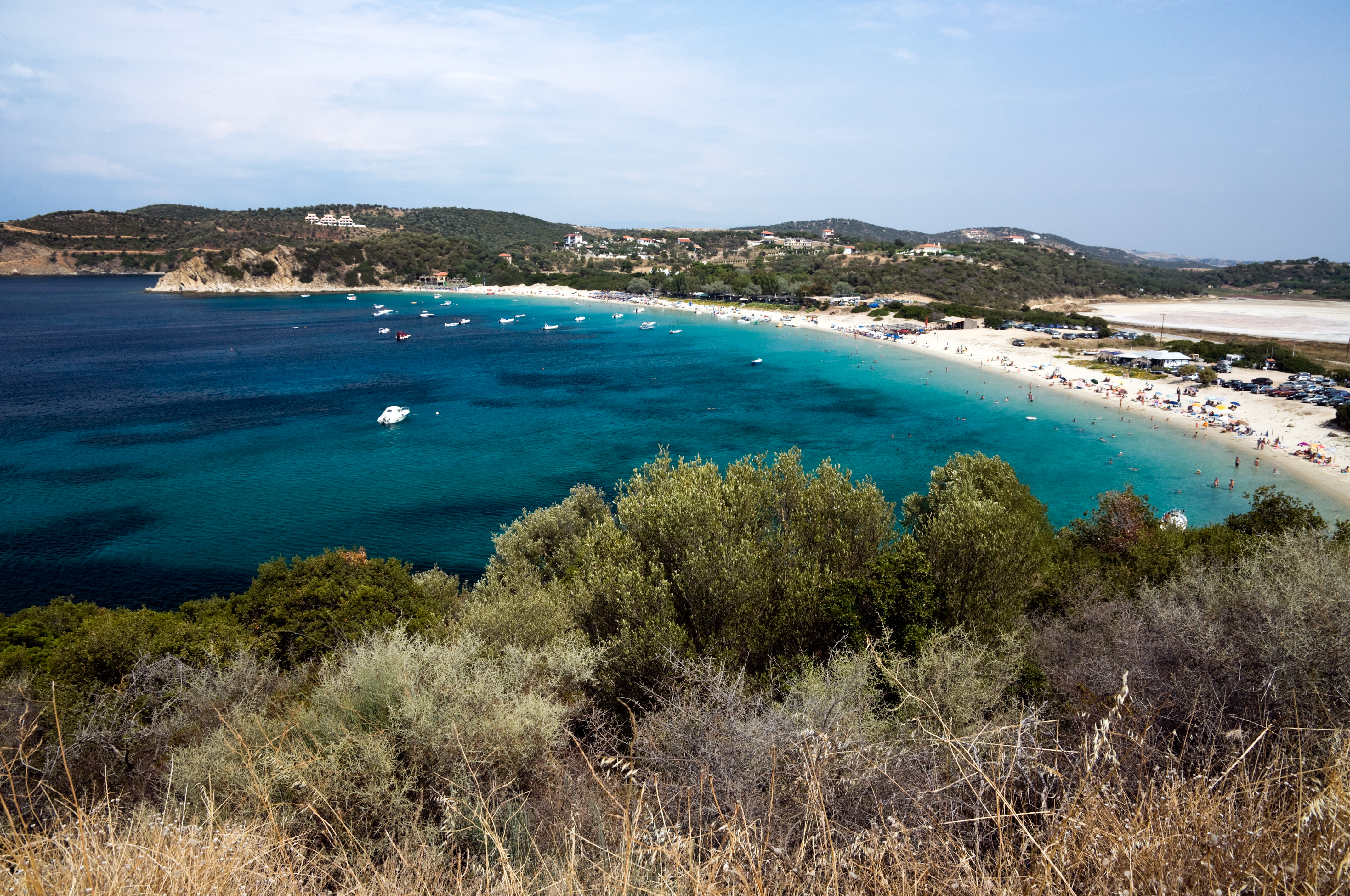 Thick mediteranean vegetation on a hill, in front of a large, beautiful bay at the Golden Beach of Ammouliani.